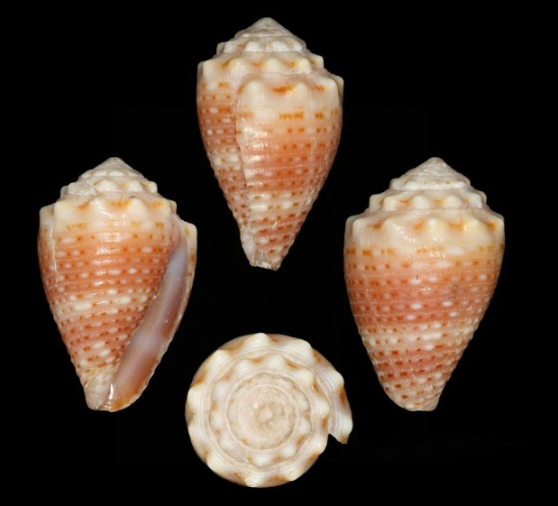 Conus tiaratus G. B. Sowerby I, 1833; family Conidae; holotype of the synonym Conus roosevelti in thze Smithsonian Institution